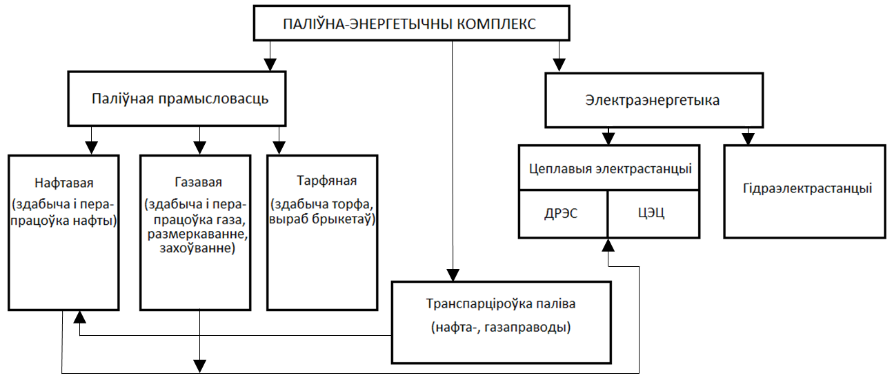 The structure of the energy sector of Belarus